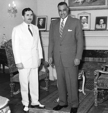 Lebanese Prime Minister Rashid Karami and President of the United Arab Republic Gamal Abdel Nasser meeting in Cairo